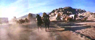 Cropped screenshot of the film How the West Was Won